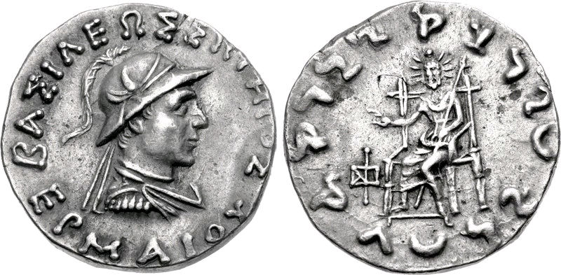 Helmetted Hermaios